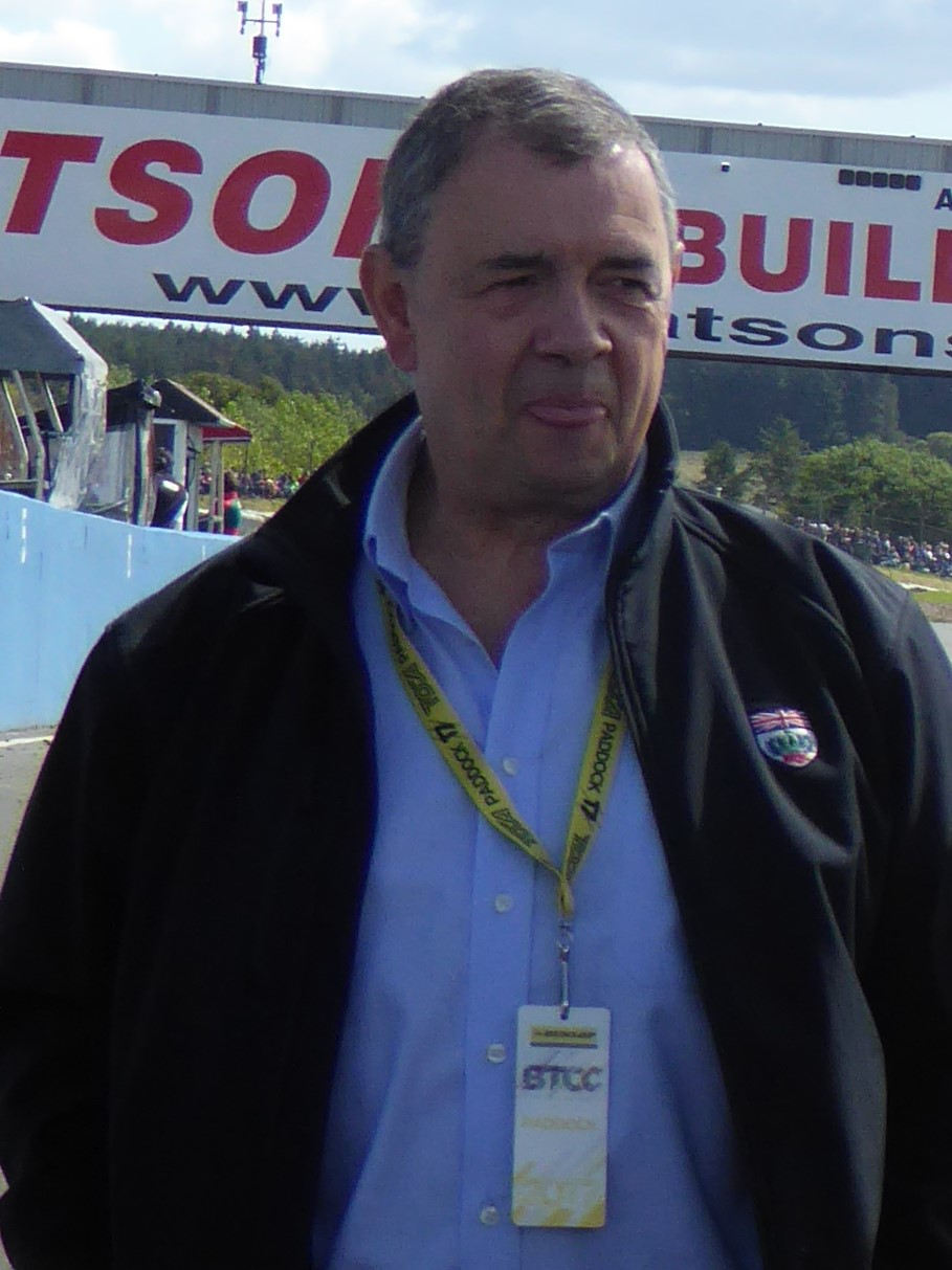 Two-time BTCC champion John Cleland, at the Knockhill round of the 2017 British Touring Car Championship.